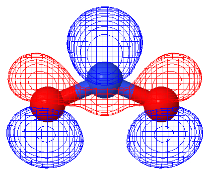 Nitrogen dioxide (NO2) highest occupied molecular orbital (HOMO). E = -0.30 a.u. (-8.61 eV)(for α spin MO 12; SOMO). Firefly 8.2.0 DFT UB3LYP 6-311+G(d) geometry (no imaginary frequencies), NBO 5.9 output and Jmol visualization. Total energy = -205.1429 a.u. (C2v point group symmetry). The bond order is between one and two (here calc. 1.78). NO2, a free radical, is generally seen as a reddish-brown gas (an atmospheric pollutant) and is an acidic oxide contributing to acid rain. It can be produced in vehicle engines or lightning/electrostatic discharges. Catalytic converters reduce such emissions.